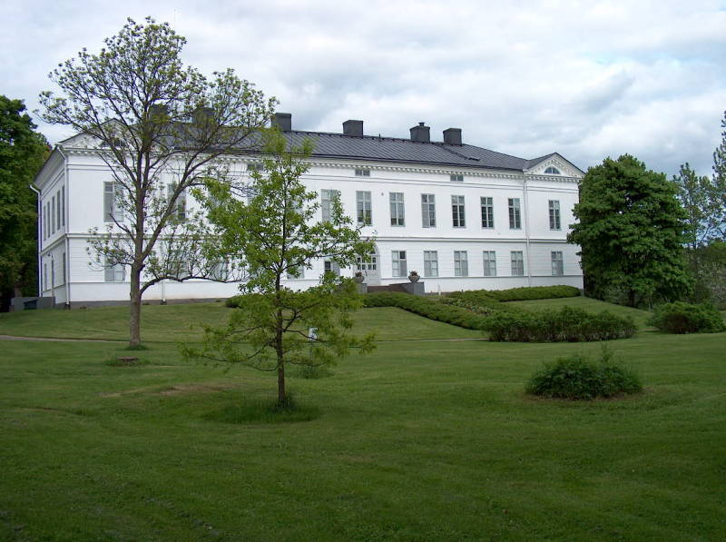 Jokioinen Manor House